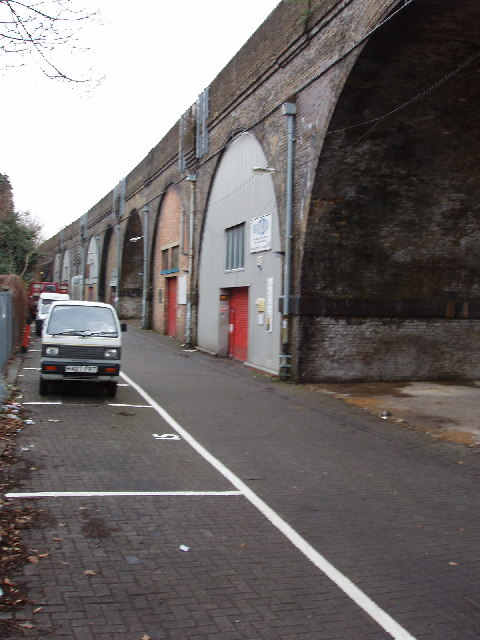 Light industry under railway arches, South Harrow. In London any railway arch is a ready-made site for small business, many of them car repair and similar.